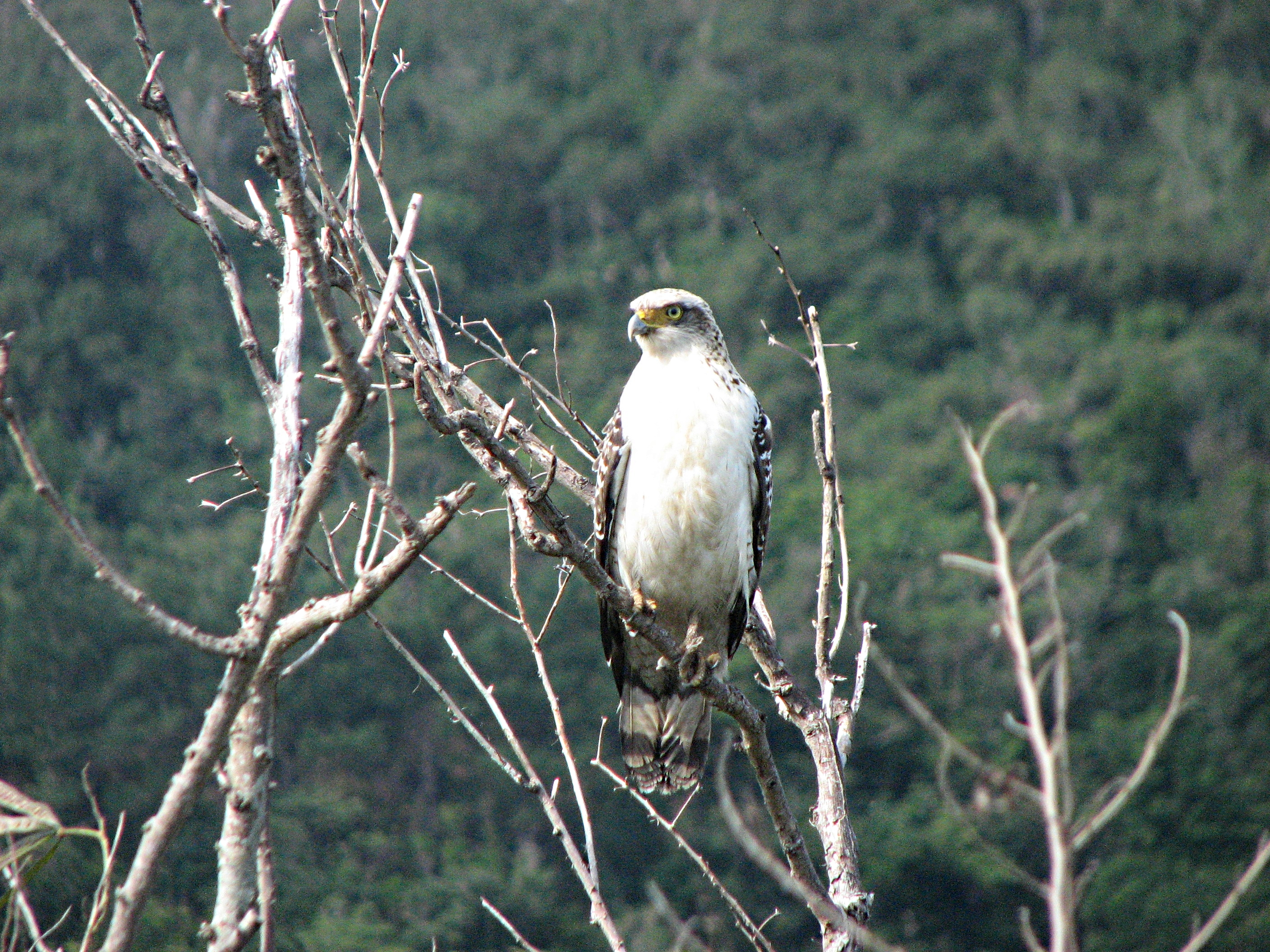 Spilornis cheela Imature(maybe) at Iriomote is. Japan.